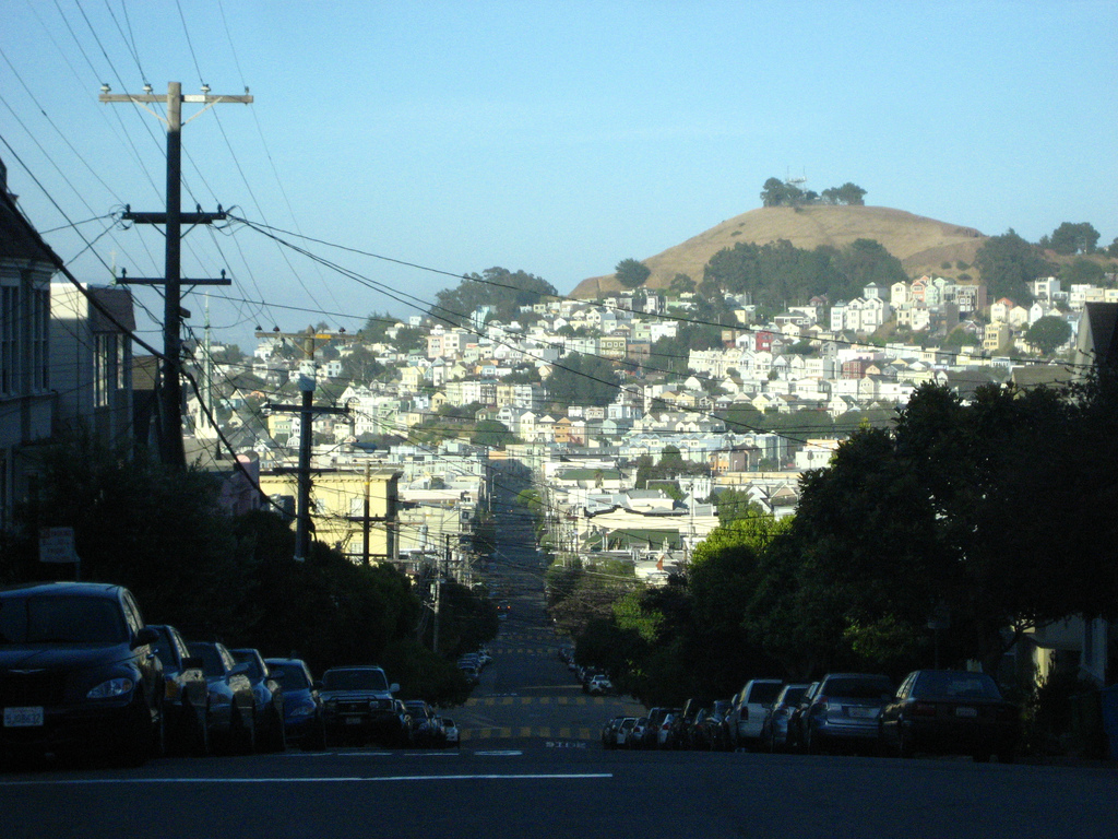 Bernal Heights, San Francisco, California